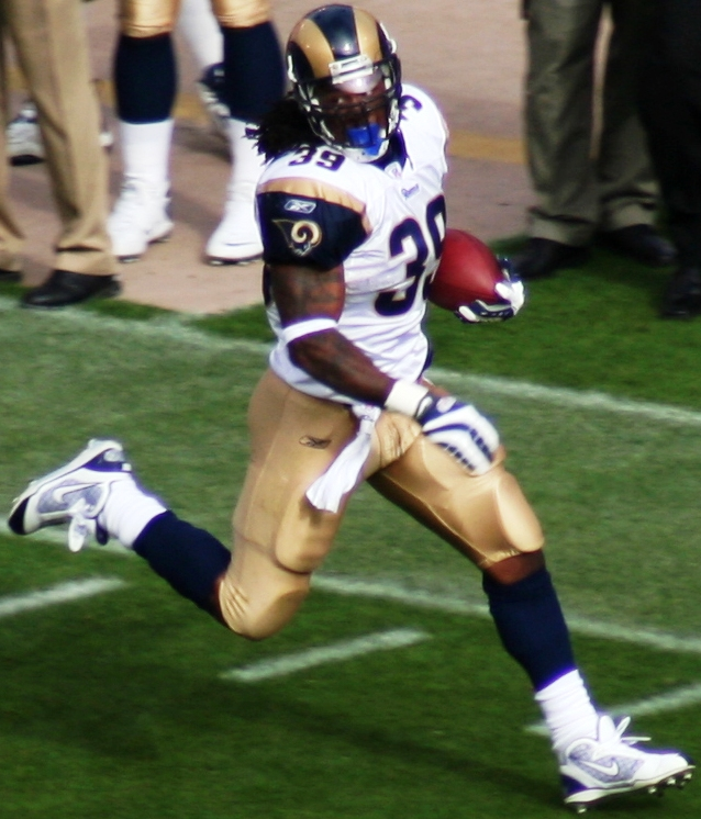 St. Louis Rams running back Steven Jackson in action in the game against the San Francisco 49ers on November 18, 2007.